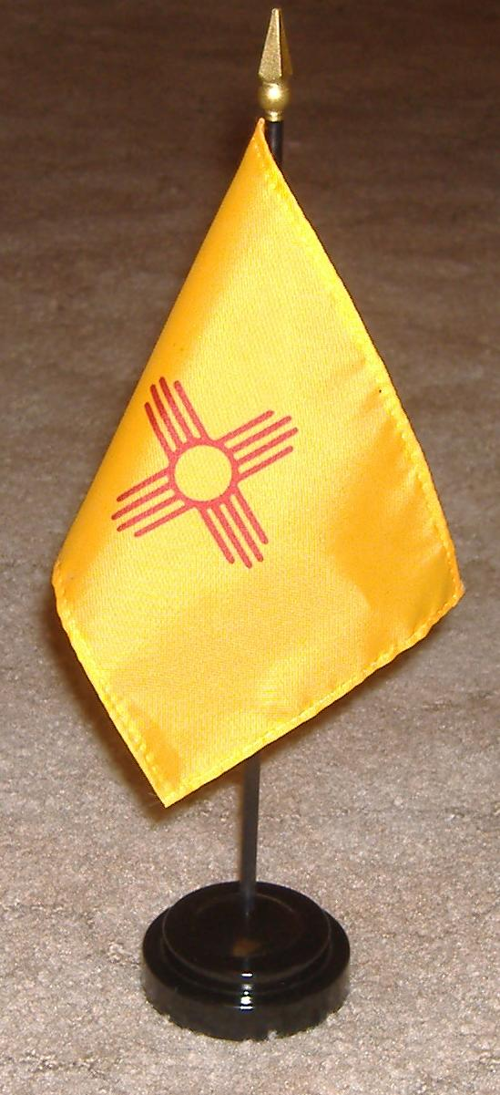 A New Mexico miniature flag with base